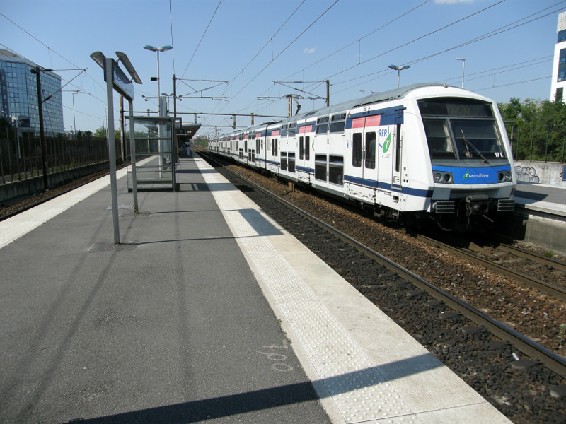 Z 22533-22534 à Val-de-Fontenay (24 mai 2010) Cet élément, assurant une mission de la ligne E pour Tournan, est en train de quitter la gare.